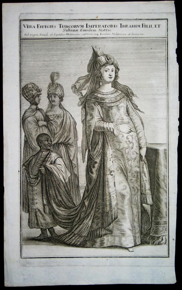 A depiction of Zaffira (named on p. 645 of the source), said to be one of the wives of Ottoman Sultan Ibrahim I, with a servant boy. She and her son Osman (illustrated in a separate engraving: see below) were on a Turkish ship that was part of a convoy sailing from Constantinople to Alexandria and carrying a number of pilgrims bound for Mecca, which was attacked by the Knights Hospitaller of Malta during the Action of 28 September 1644.